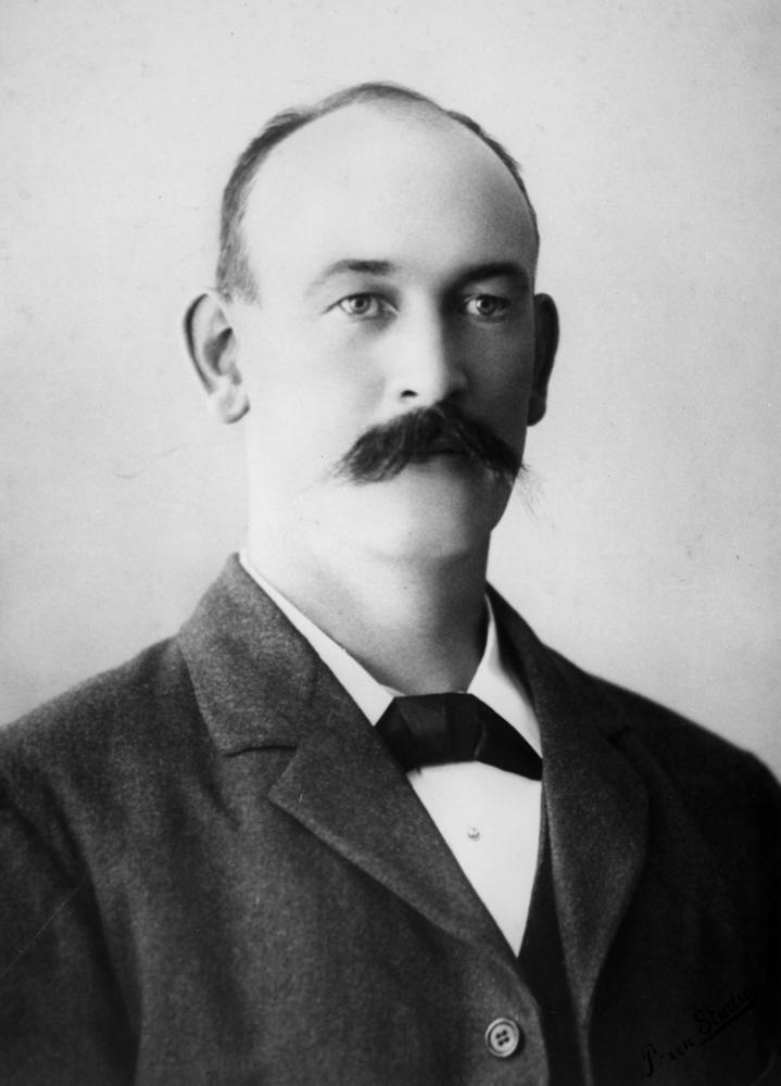 Toowoomba Mayor Mathew Keeffe, 1900. Mathew Keeffe was a hotelier when he was elected Mayor of Toowoomba in 1900. A native of Kilkenny in Ireland, he arrived in Queensland during the late 1870 s. In 1879 he joined the Queensland Police Force at Brisbane where he was first stationed. He was subsequently transferred to Warwick and from there to Toowoomba. When he resigned from the force in 1889, his rank was acting sergeant. After leaving the police force, Mathew Keeffe became licensee of the Freemason s Hotel and afterwards conducted the White Horse and Crown hotels. He was alderman of the then East Ward from 1896 until 1901.